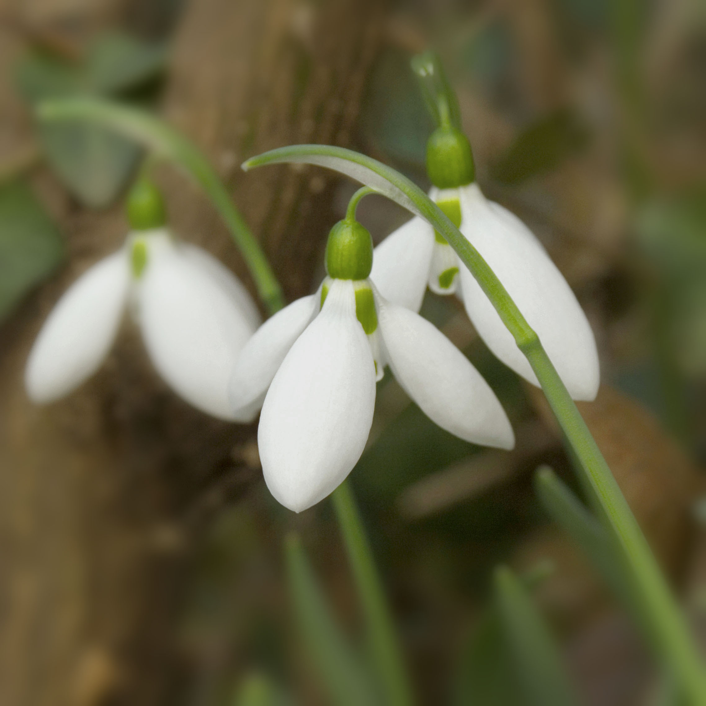 Galanthus elwesii - from Hungary